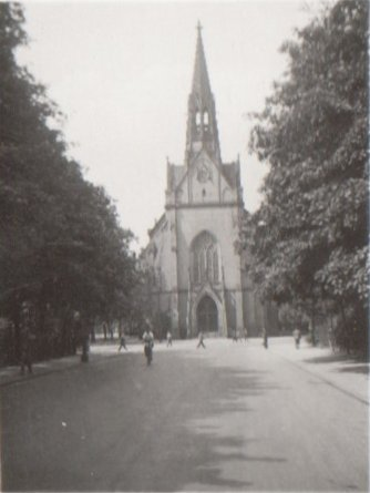 Church of Jan Amos Komenský in Brno, Czechoslovakia of the second half of the 20th century.